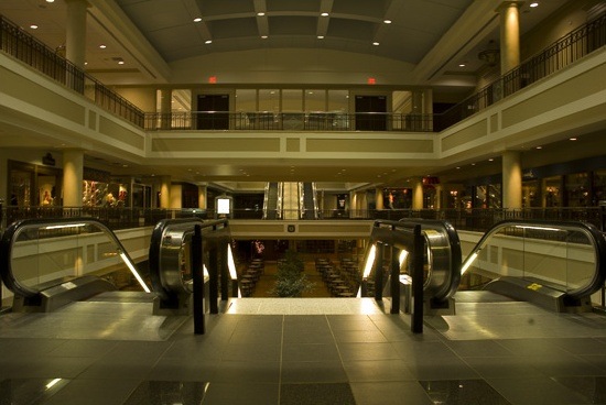 The Lexington Center at night.